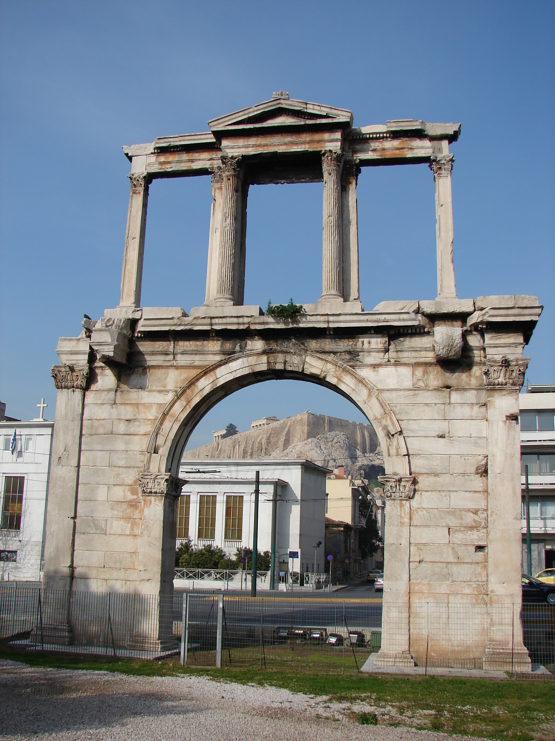 Author: Vikram Bajaj View metadata for more information